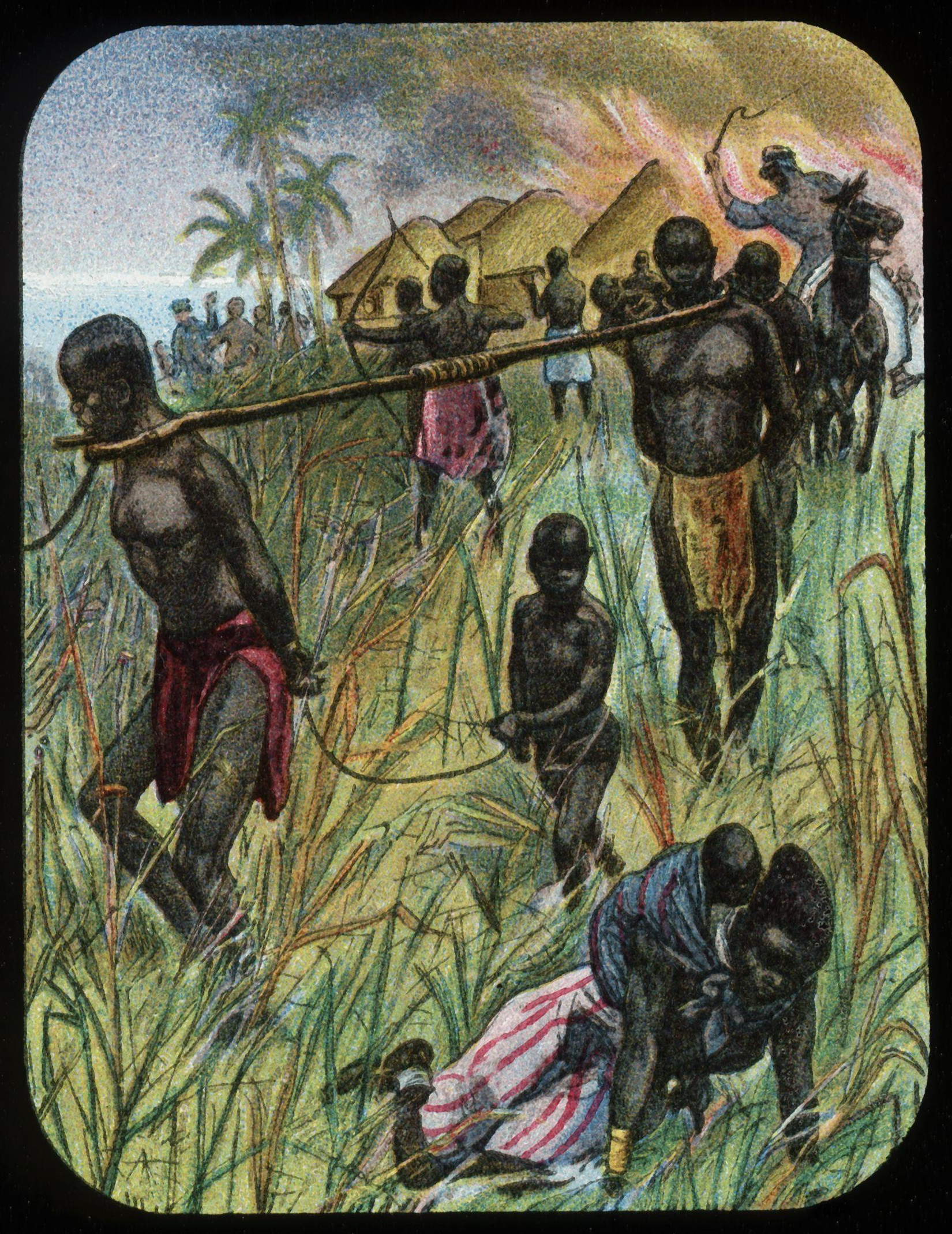 All images in this batch have been evaluated manually for evidence that the artist probably died before 1939, or that the work is anonymous or pseudonymous and was probably published before 1923. Pseudonymous, circa 1900. This image (or other media file) is in the public domain because its copyright has expired and its author is anonymous. This applies to the European Union and those countries with a copyright term of 70 years after the work was made available to the public and the author never disclosed their identity. Important: Always mention where the image comes from, as far as possible, and make sure the author never claimed authorship. Note: In Germany and possibly other countries, certain anonymous works published before July 1, 1995 are copyrighted until 70 years after the death of the author. See Übergangsrecht. Please use this template only if the author never claimed authorship or their authorship never became public in any other way. If the work is anonymous or pseudonymous (e.g., published only under a corporate or organization's name), use this template for images published more than 70 years ago. For a work made available to the public in the United Kingdom, please use Template:PD-UK-unknown instead.